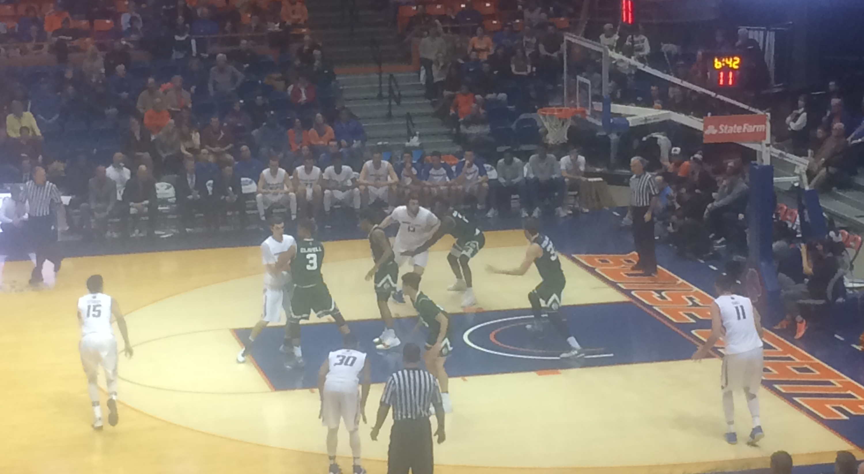 Boise State on offense in the second half of their Mountain West Conference game vs Colorado State on December 31, 2016 at Taco Bell Arena in Boise, Idaho.